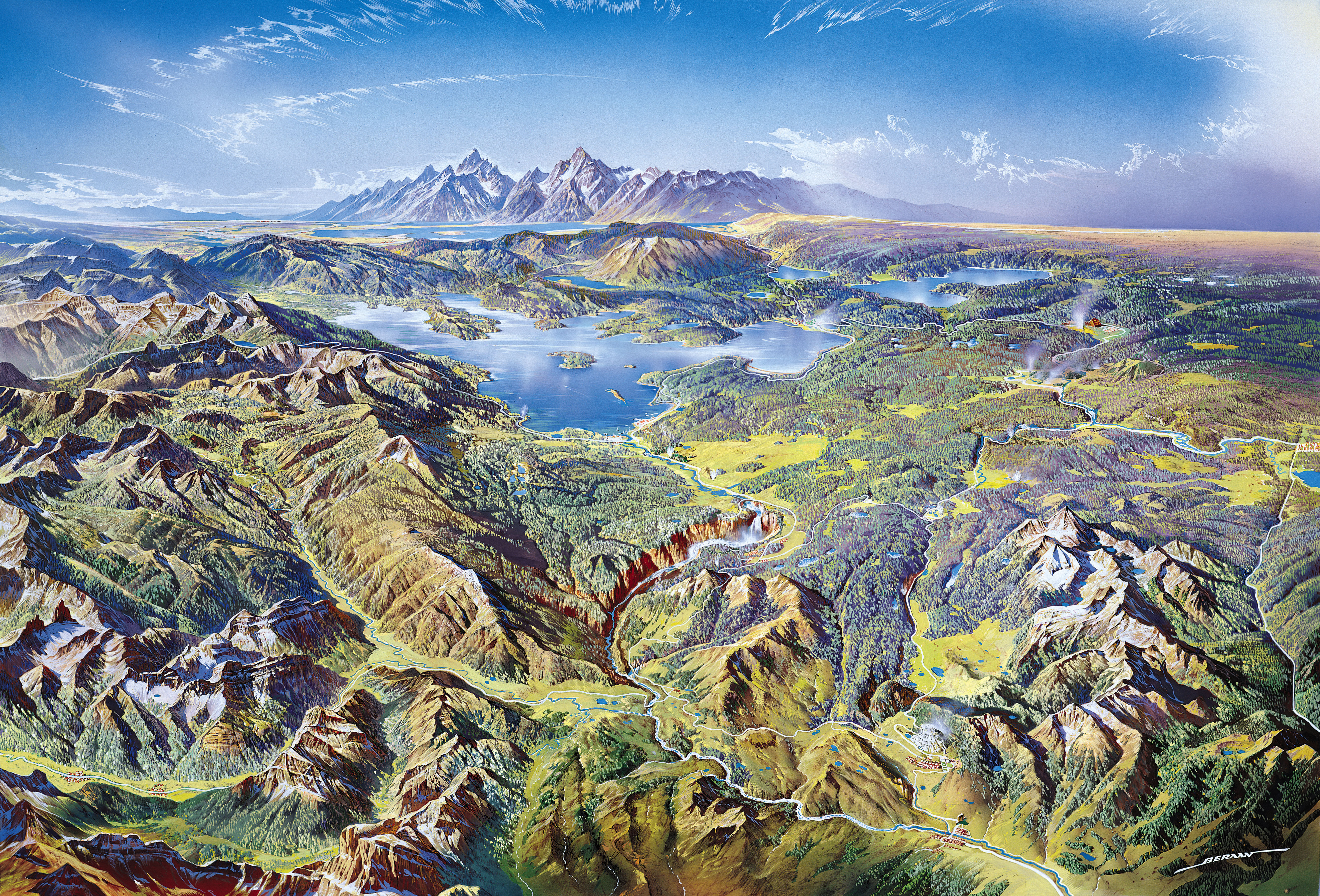 Panoramic drawing of the Yellowstone National Park